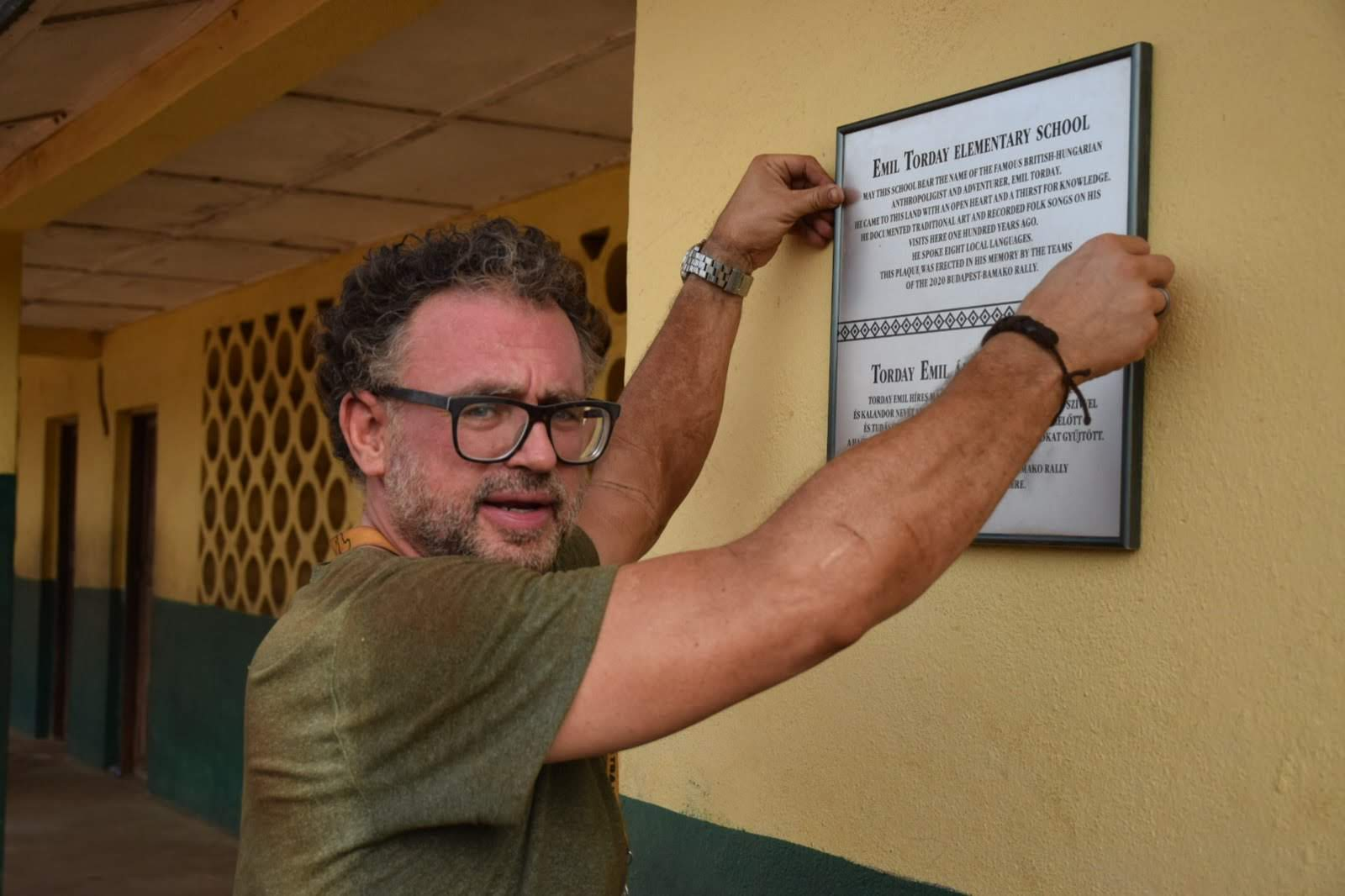 The school in Magbondoline, Sierra Leone was named after British-Hungarian ethongrapher, anthropologist, Emil Torday. Plaque gets unveiled by the founder of the Budapest-Bamako rally, Andrew G. Szabo On Feburary 16, 2020.